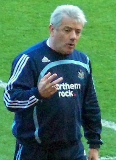 English football (soccer) manager Kevin Keegan